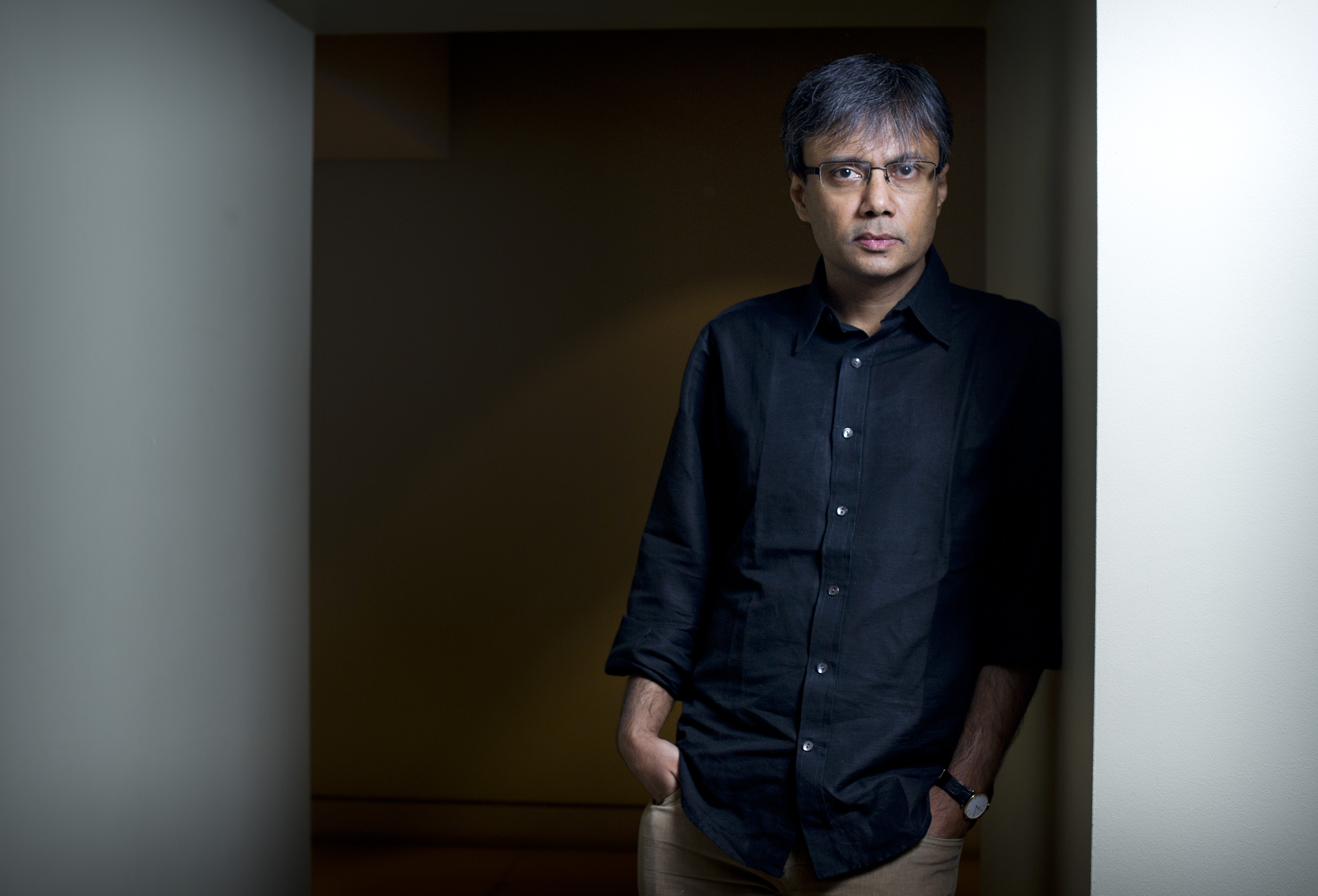 Amit Chaudhuri photo by Geoff Pugh